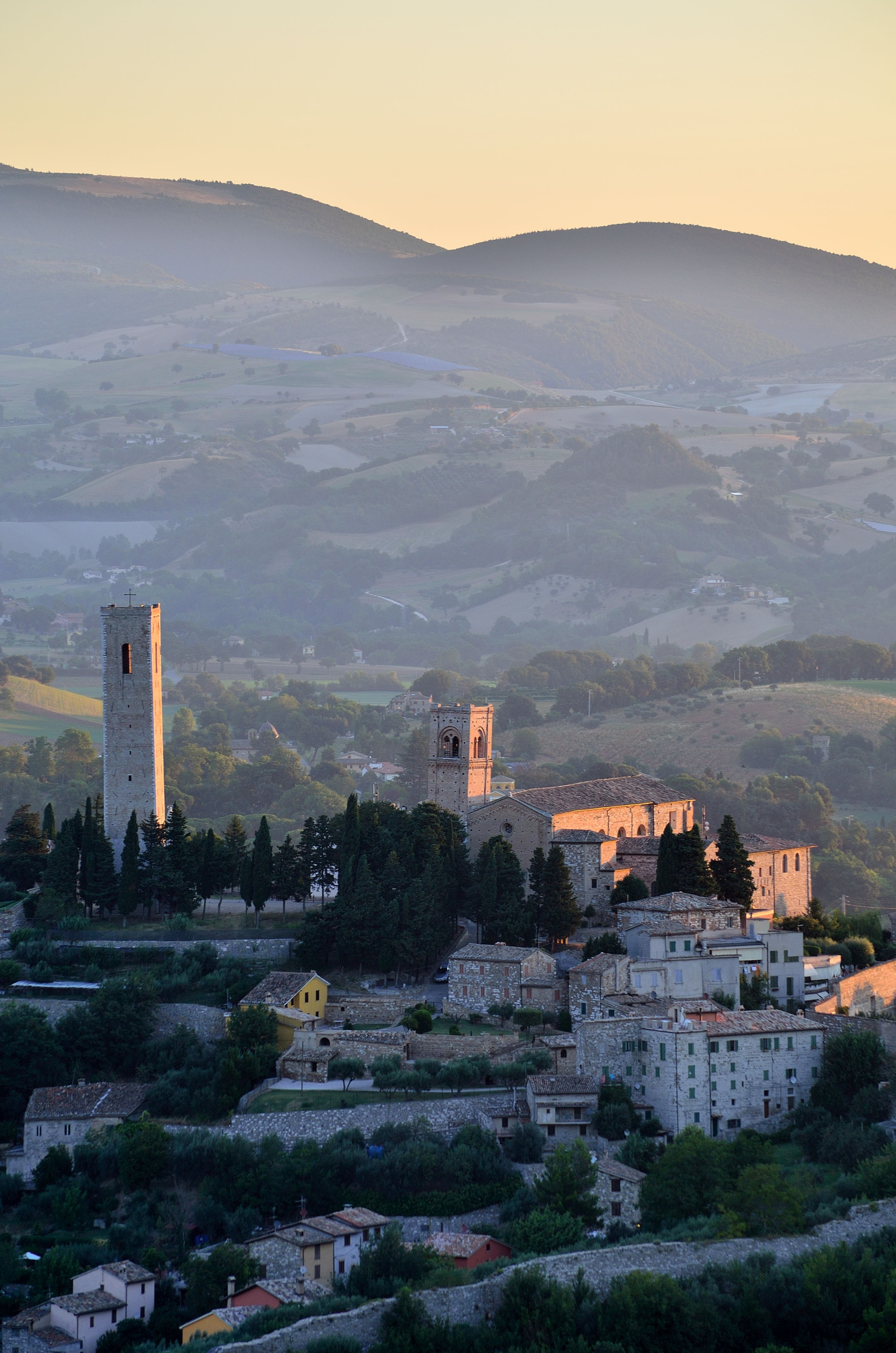 This is a photo of a monument which is part of cultural heritage of Italy.